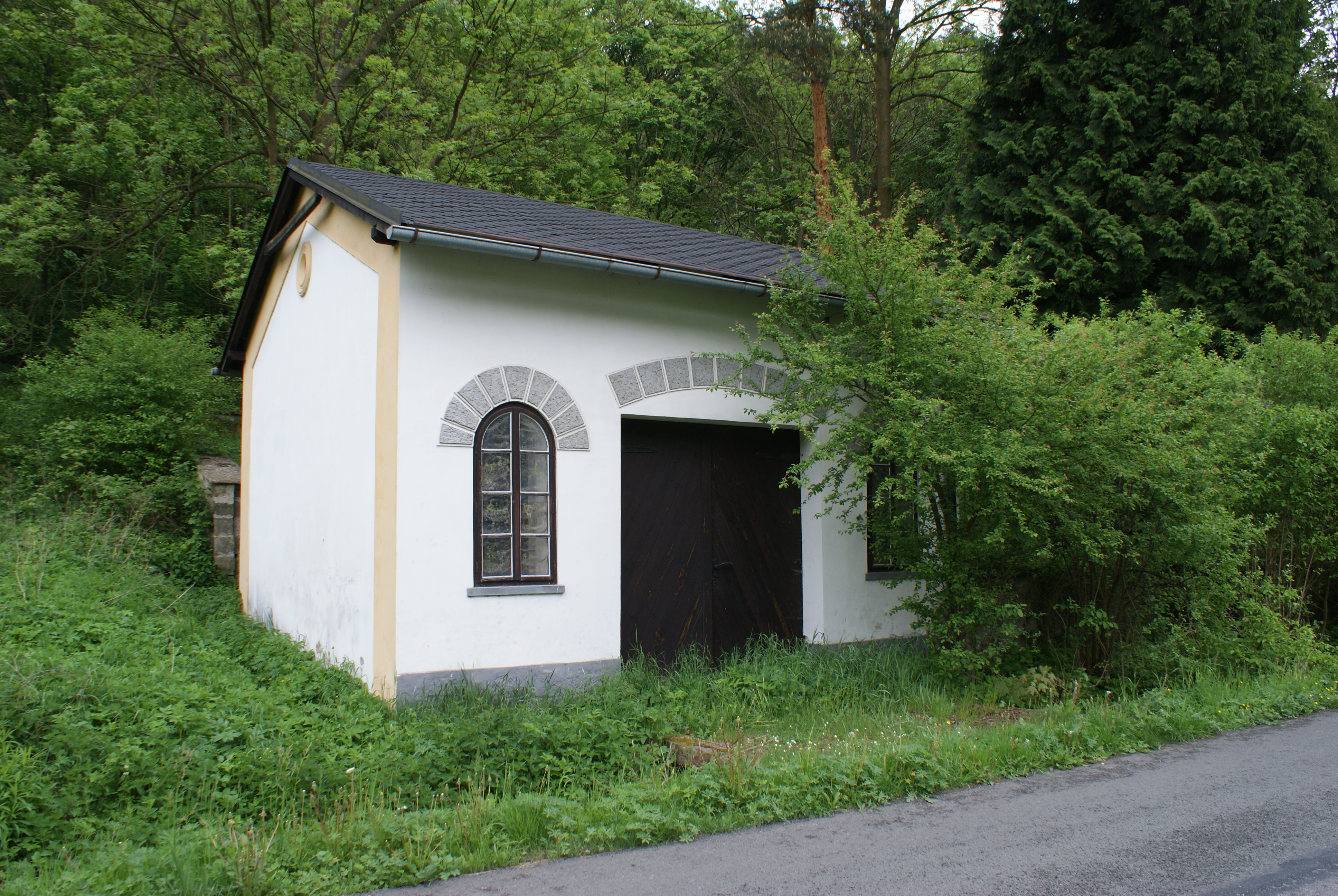 Jewish cemetery in Dolní Cetno, Mladá Boleslav district, Czech Republic.